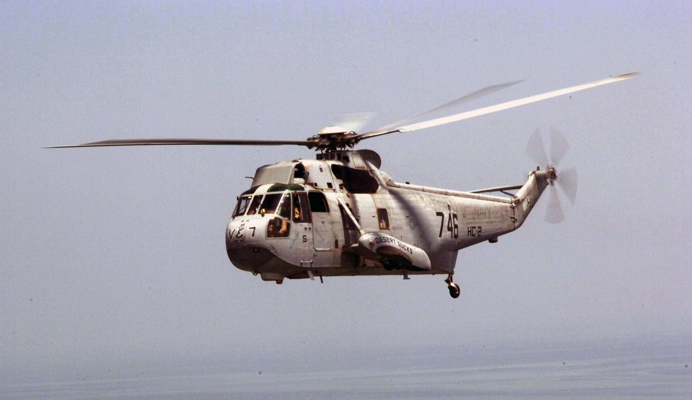 Manama, Bahrain (Sept. 2, 2005) - A UH-3H Sea King helicopter, assigned to the “Desert Ducks” of Helicopter Combat Support Squadron Two (HC-2), flies over Fast Al Jarim Island near Manama, Bahrain. Operating from Manama, Bahrain, HC-2 has been a permanent detachment in the area for 33 years. HC-2 is being relieved by the “Desert Hawks” of Helicopter Sea Combat Squadron Two Six (HSC-26), and will be returning to Norfolk, Va.